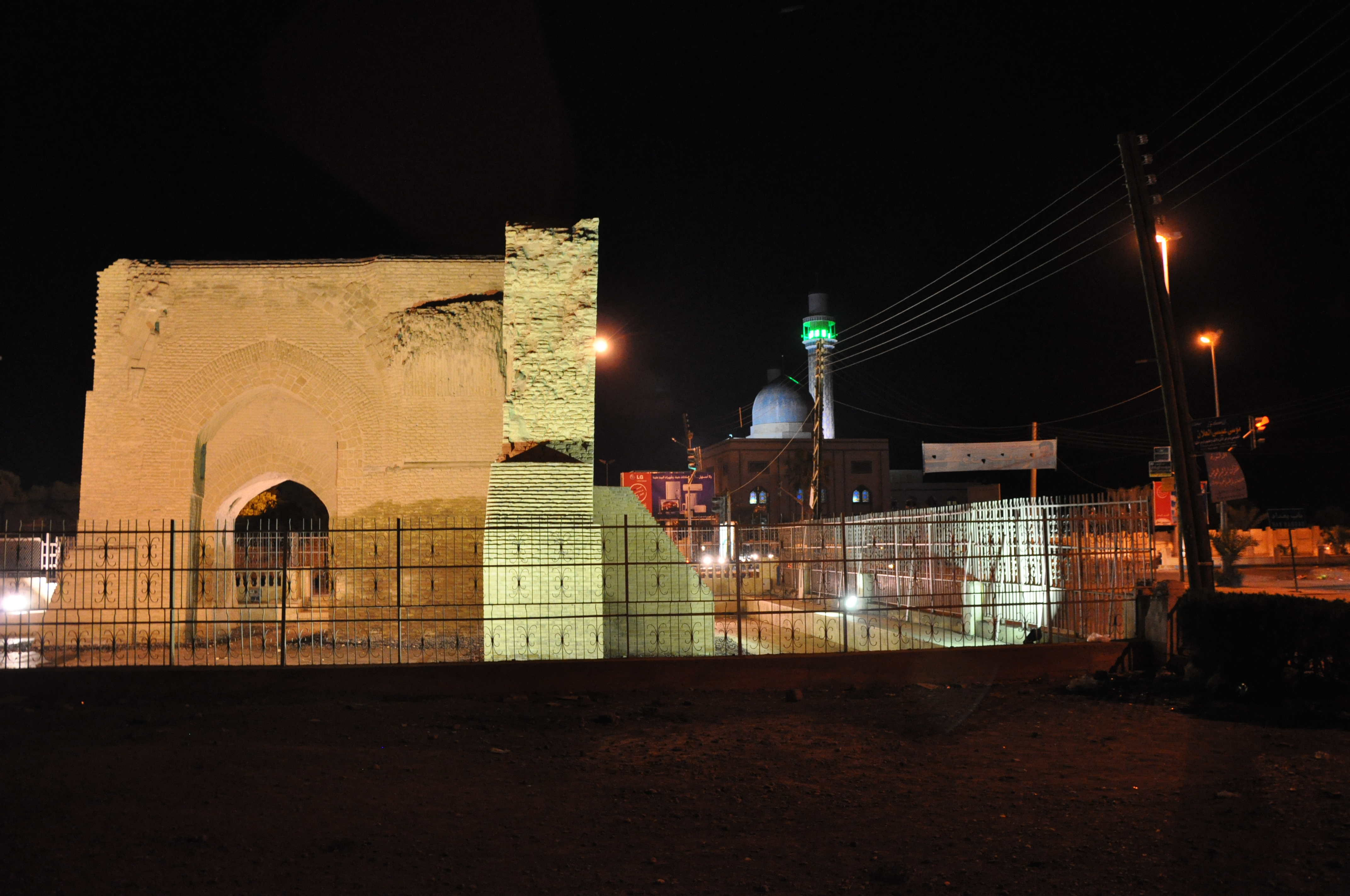 Awis al-Qarni mosque and Bab Baghdad at night, Ar-Raqqa, Syria.